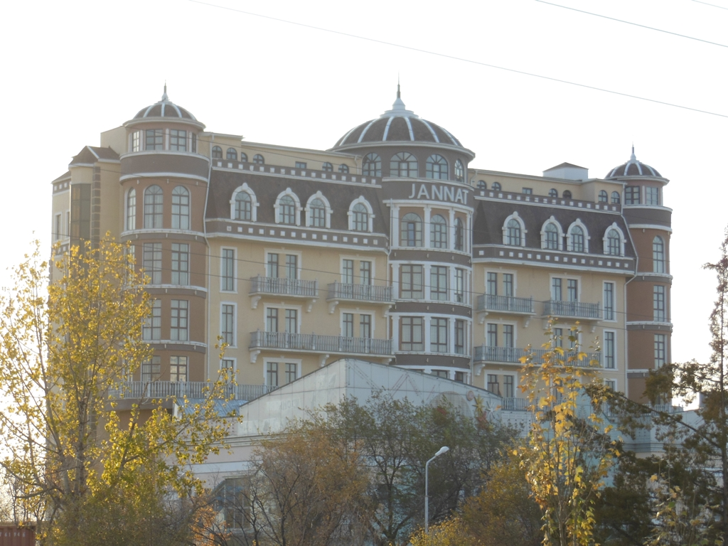 Hotel in Bishkek